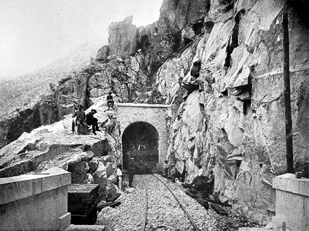 Tua railway. Fragas Más tunnel. Photograph by Emílio Biel [191?-191?]